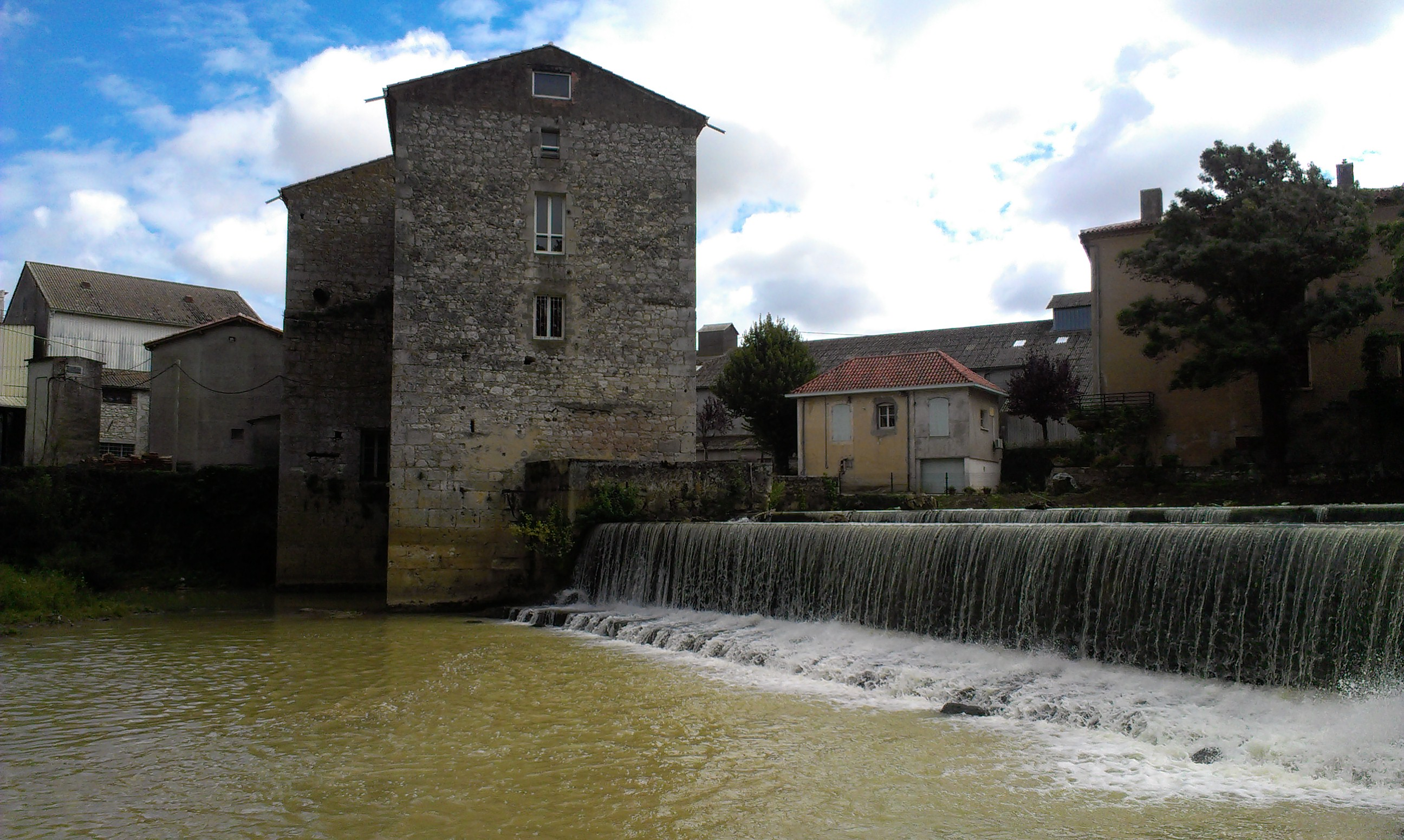 Astaffort is a commune in the Lot-et-Garonne department in southwestern France.